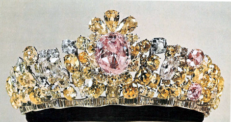 Tiara of Empress Farah Pahlavi